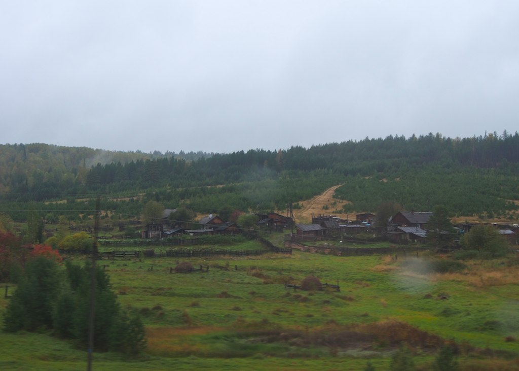 Somewhere in the Irkutskaya Oblast, Russia